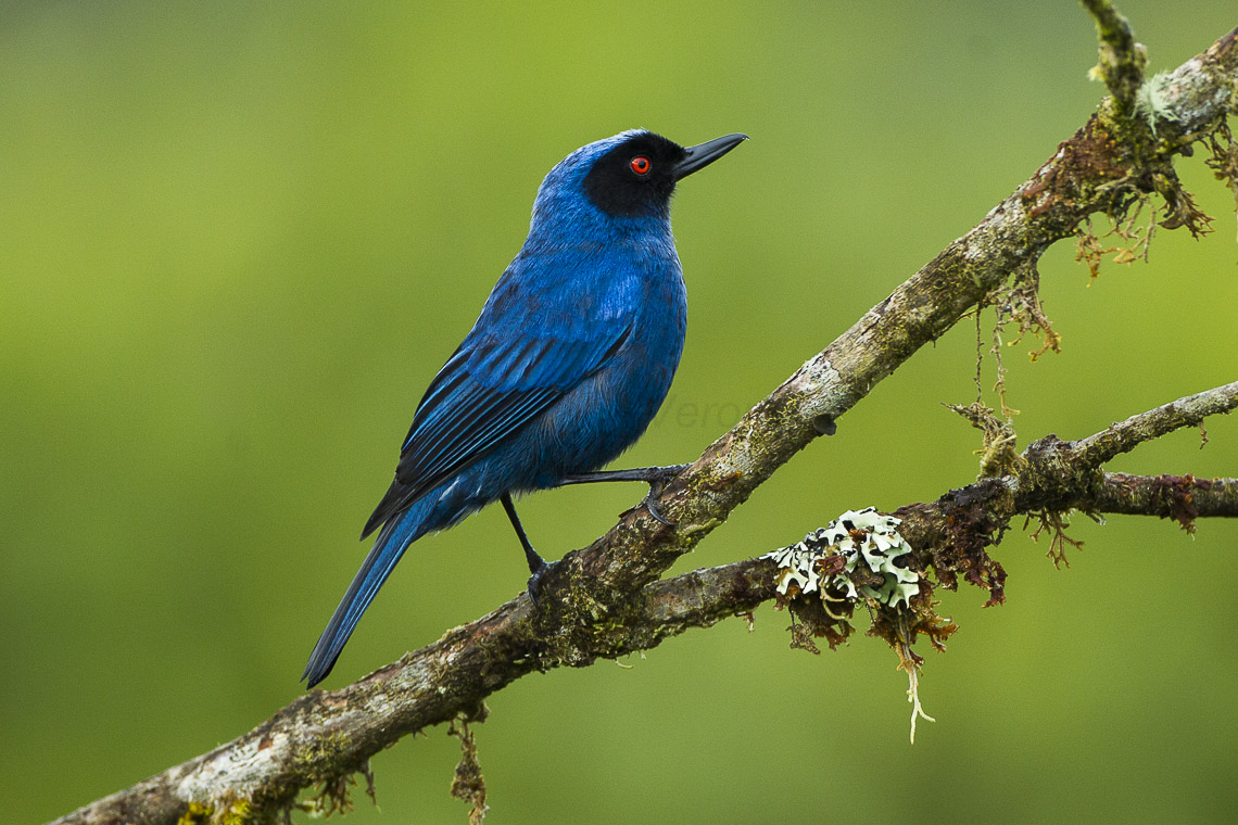 Masked Flowerpiercer - Colombia_S4E2738